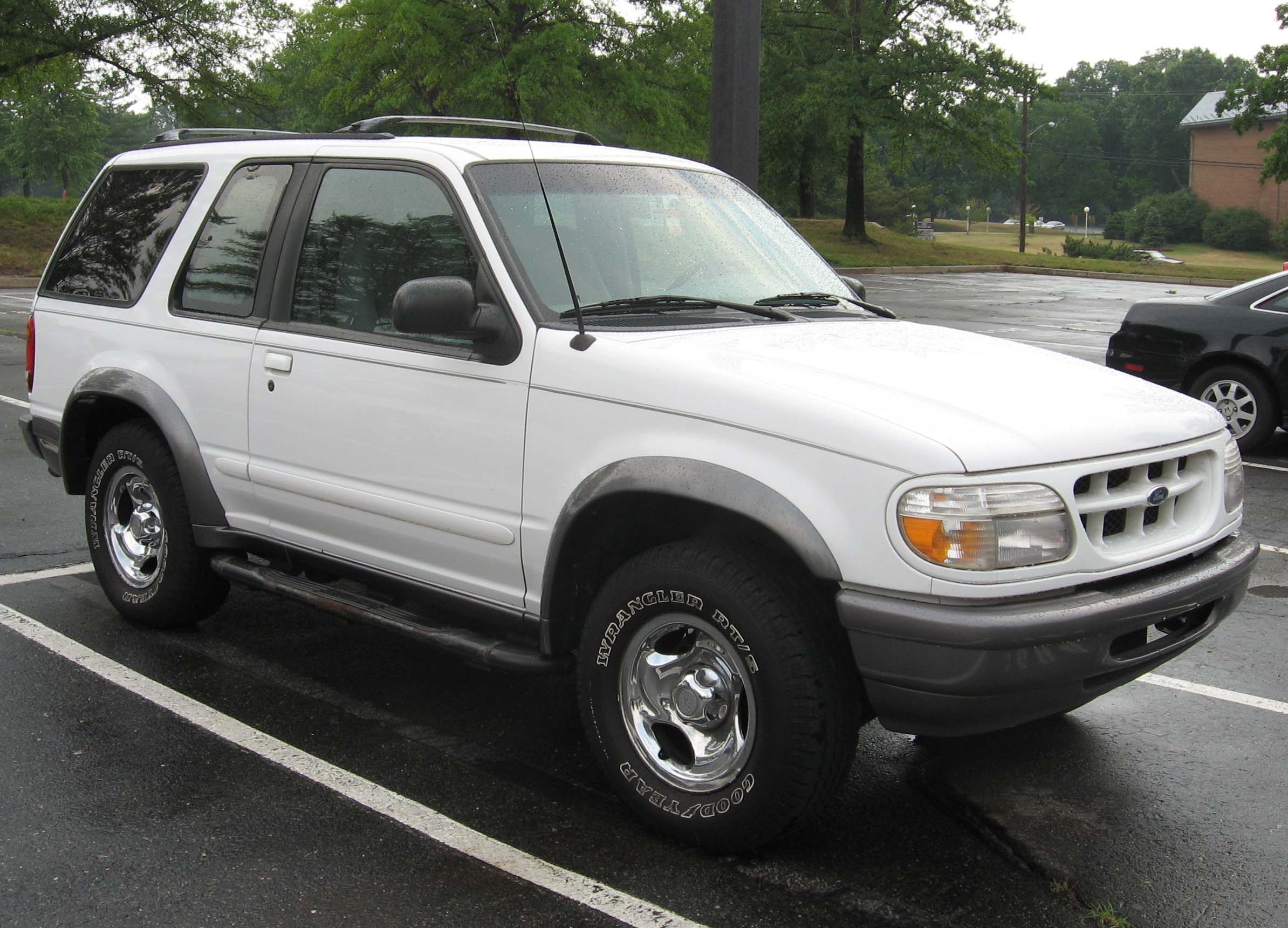 1999-2001 Ford Explorer 2-door Sport photographed in USA.